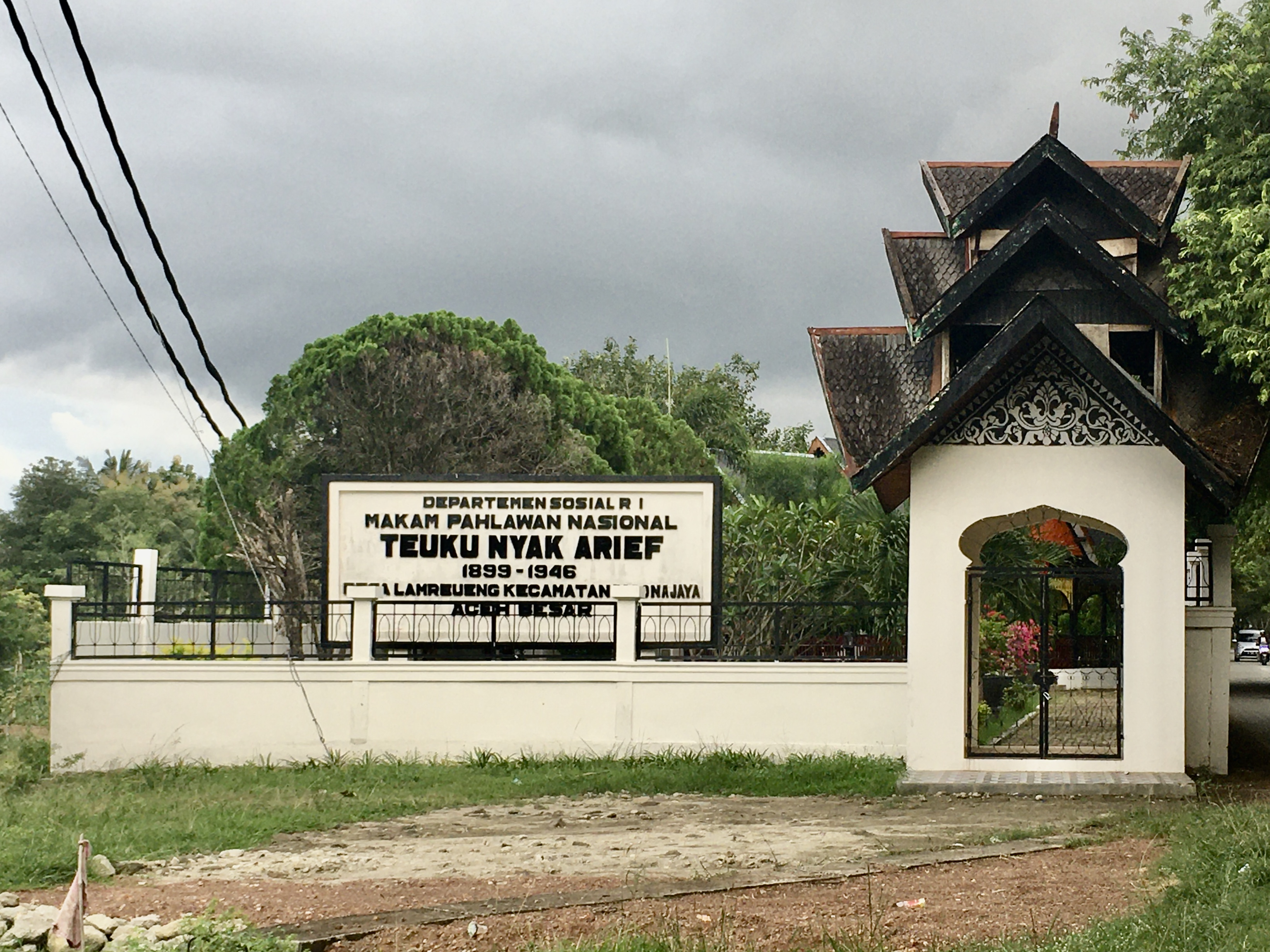 Burial ground of Teuku Nyak Arief, Lamreung, Aceh Besar.